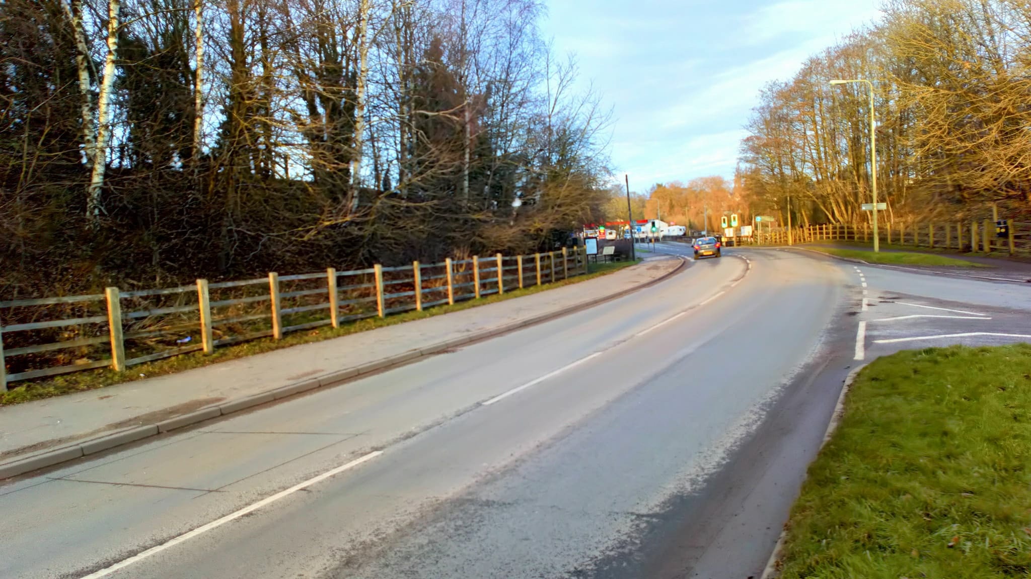 My own.